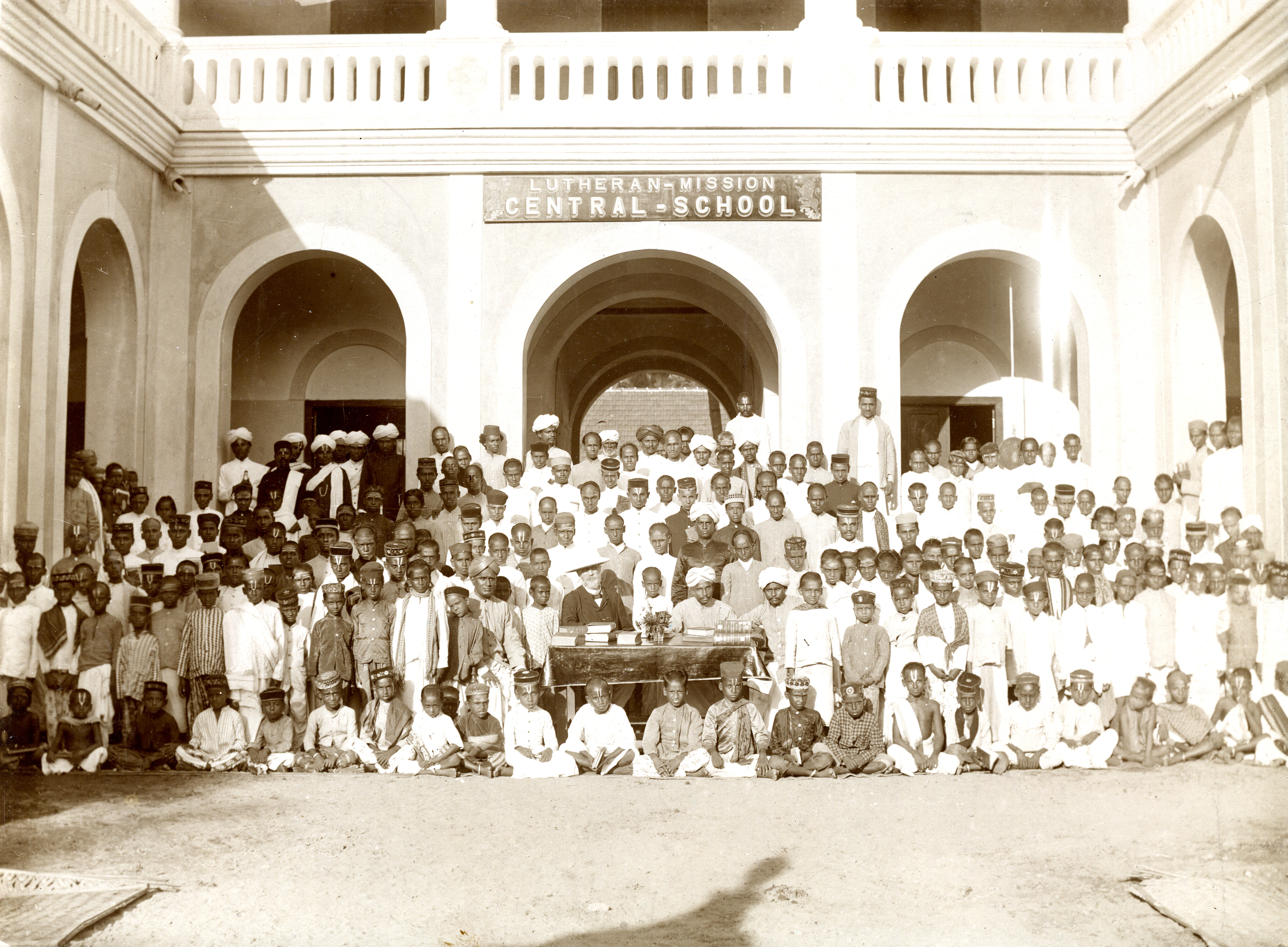 Opening ceremony 1896 of the Lutheran-Mission Central-School (later Lutheran-Mission Central High School) in Sirkazhi (former Schiali), Nagapattinam district, Tamil Nadu, India.